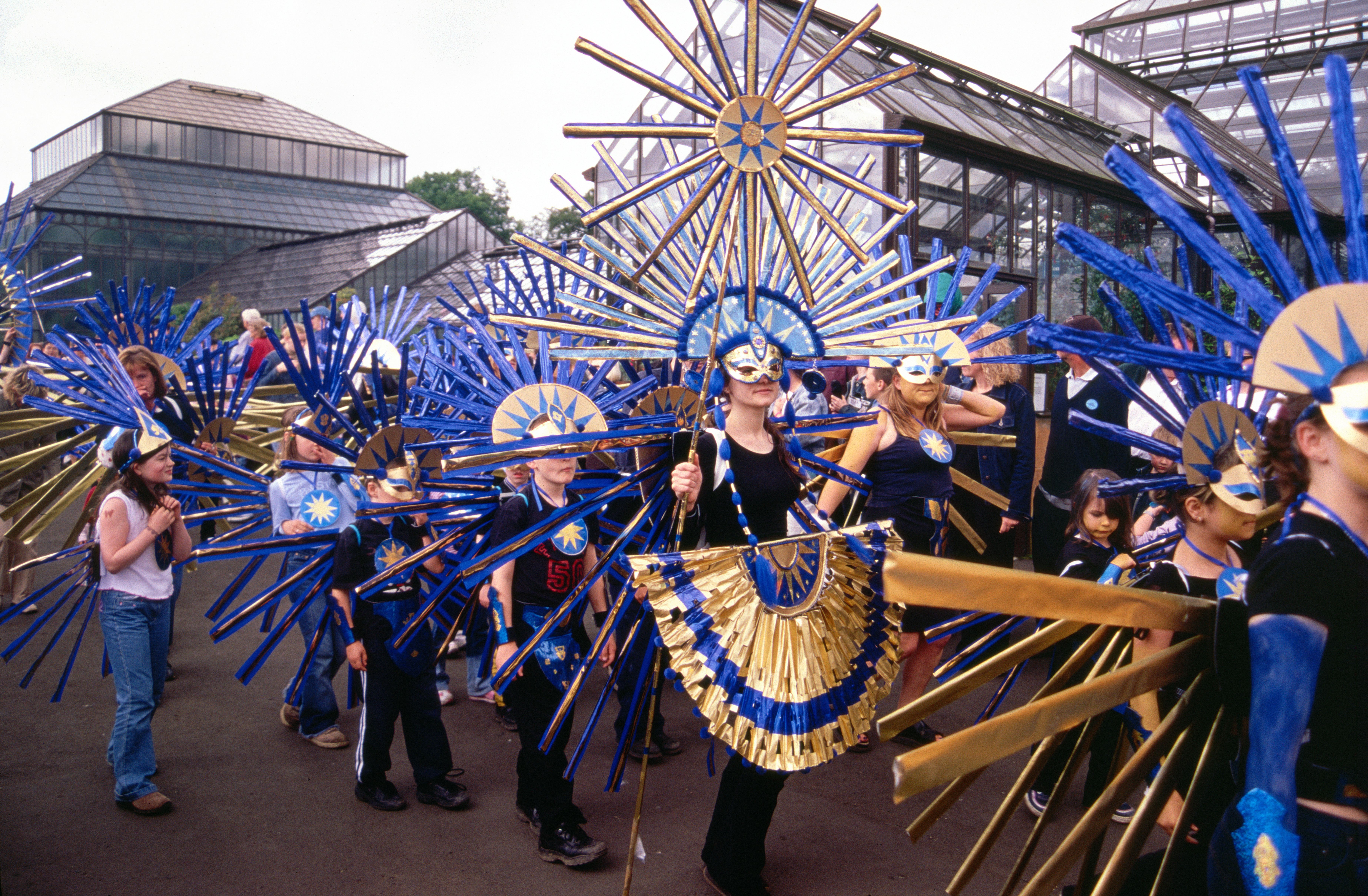 Procession of Glasgow's West End Festival in mid-2002 as seen in the Botanical Gardens (just off Byres Road).